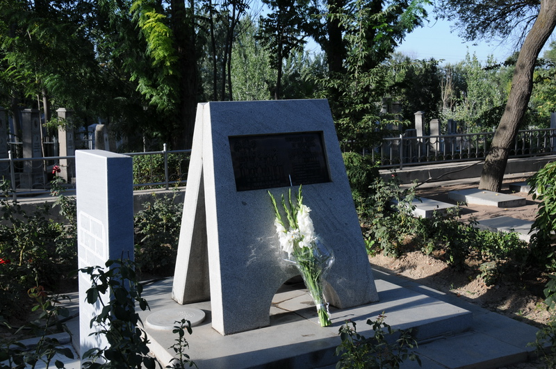 Tashkent Japanese Cemetery (Yakkasaray) 01aug2009